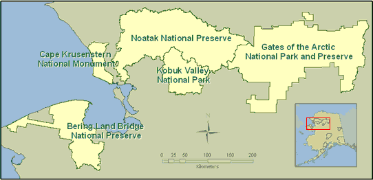 Map of the Western Arctic national parklands of Alaska, USA. Gates of the Arctic National Park and Preserve is contiguous, but is managed separately from the other four units.